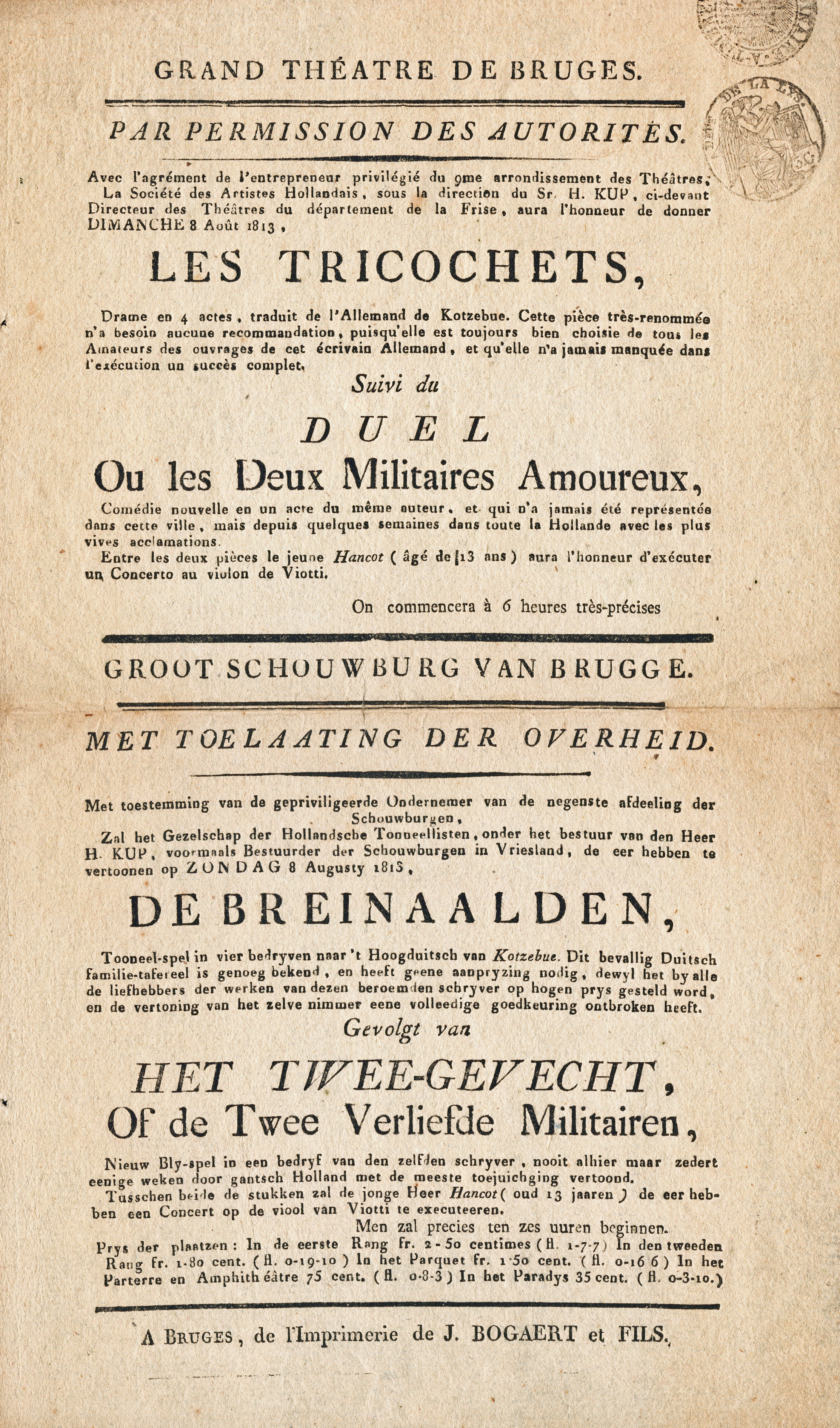 Announcement of a theatrical performance by the Hollandsche Toonneellisten in the theater of Bruges (Belgium) on Sunday 8 August 1813, performing two pieces by August von Kotzebue: Die Stricknadeln ("The knitting needles") and Das Duell ("The Duel")